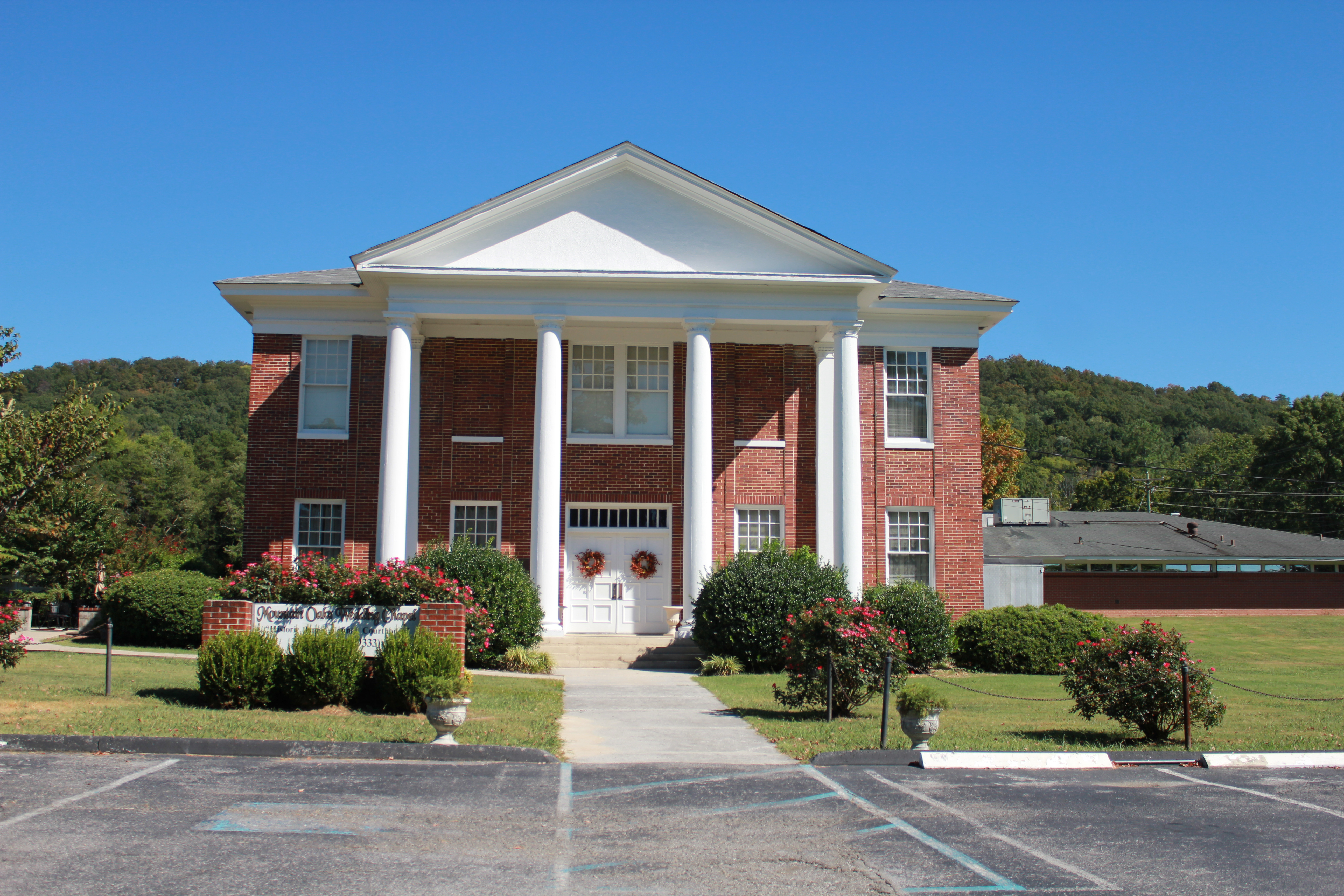 This is a picture of the James County Courthouse in Ooltewah, TN.